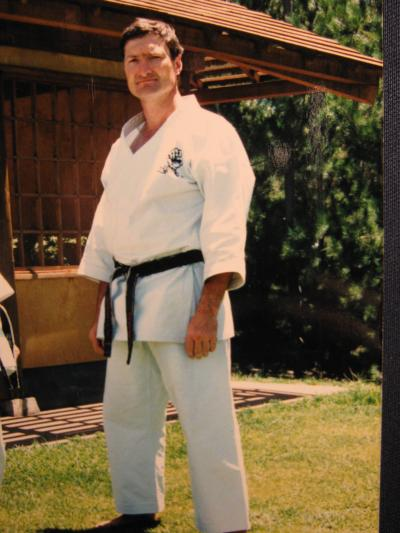 Paul Starling Shihan at Cowra New South Wales war cemetery dedicated to Japanese prisoners of War in Australia 1943 circa